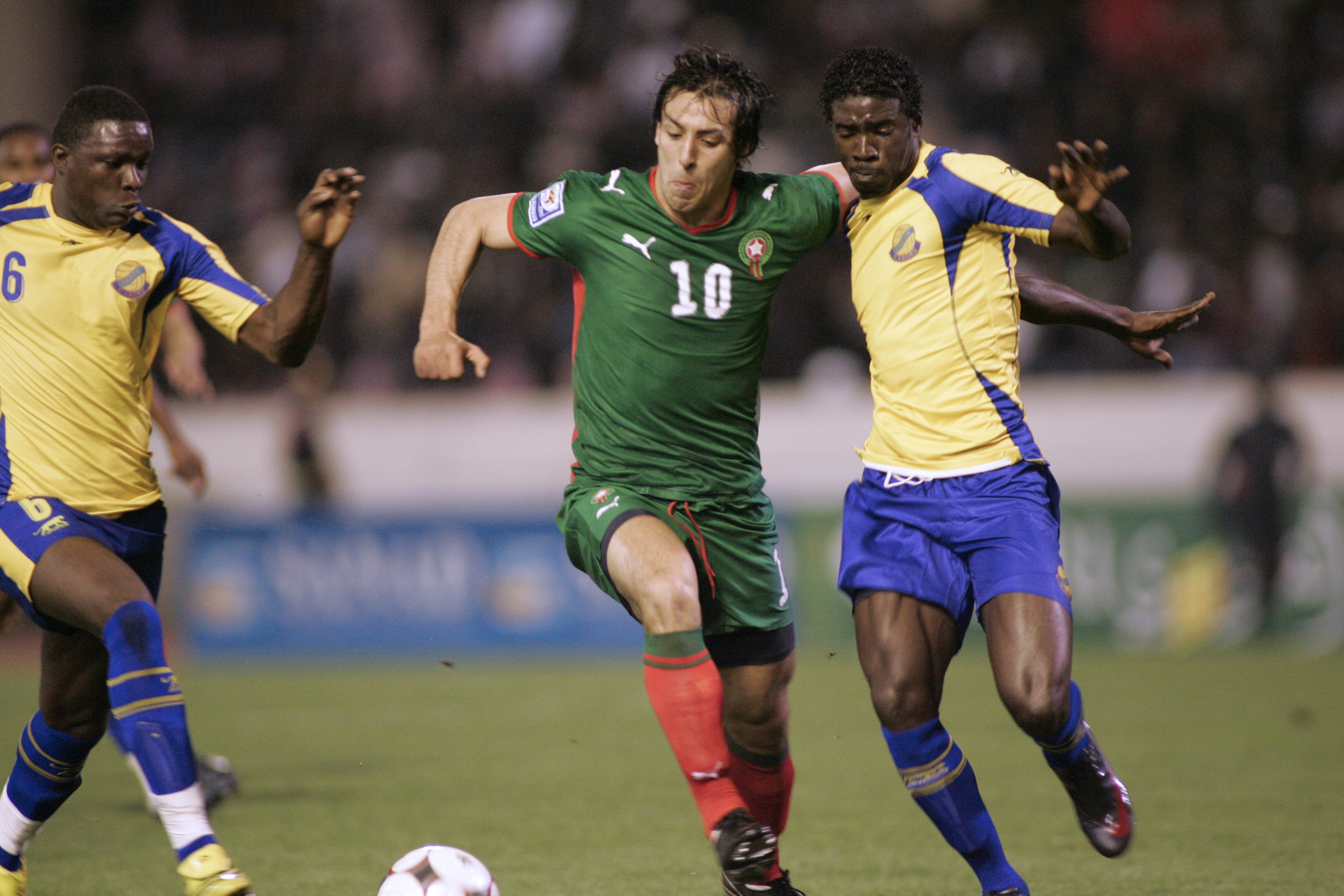 Ernest Akouassaga (6, left, Gabon), Mounir El Hamdaoui (10, center, Morocco) and Stephane Guema (7, right, Gabon) during the match of Gabon and Morocco on March 28, 2009